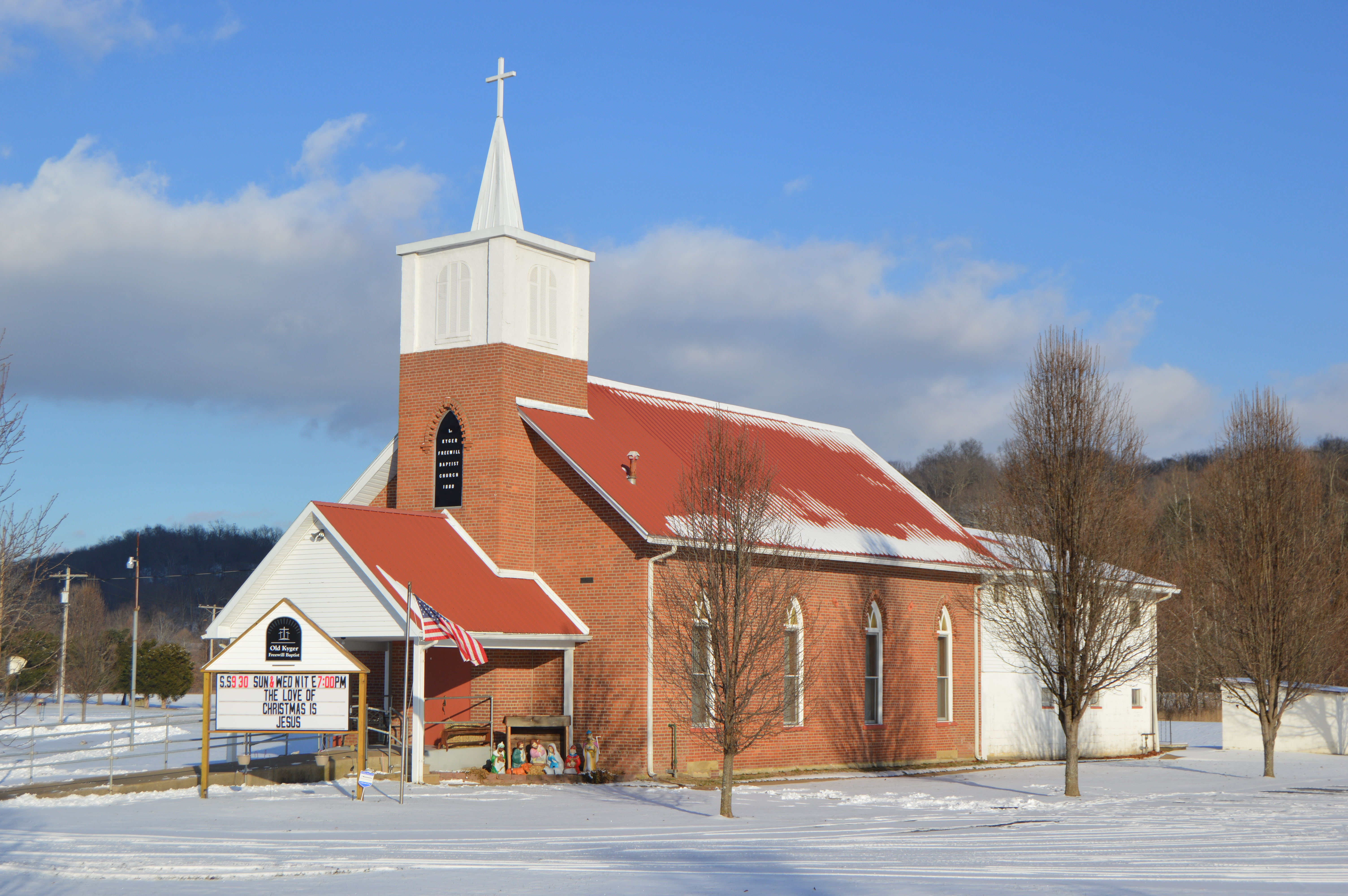 Front and southern side of the Old Kyger Freewill Baptist Church, located on Stingy Creek Road just northwest of Cheshire in Cheshire Township, Gallia County, Ohio, United States.